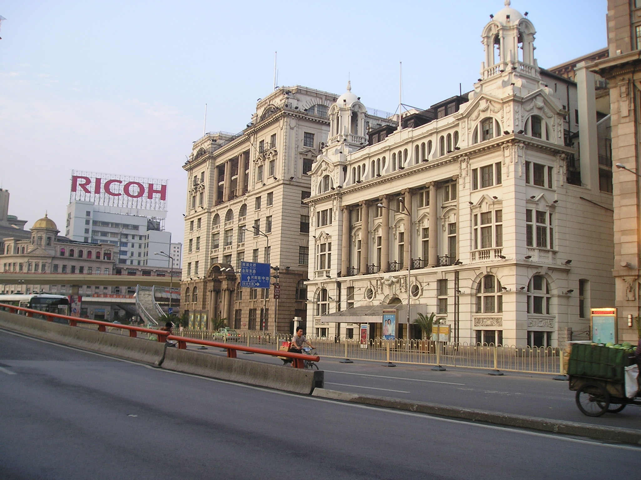 The Shanghai Club Building is a six-story Baroque Revival building in Shanghai located at The Bund. Once home to the Shanghai Club. It is currently part of the Waldorf-Astoria Hotel. The six-storey Asia Building was built in 1916 for Royal Dutch Shell's Asiatic Petroleum division and later housed the Shanghai Metallurgical Designing & Research Institute.